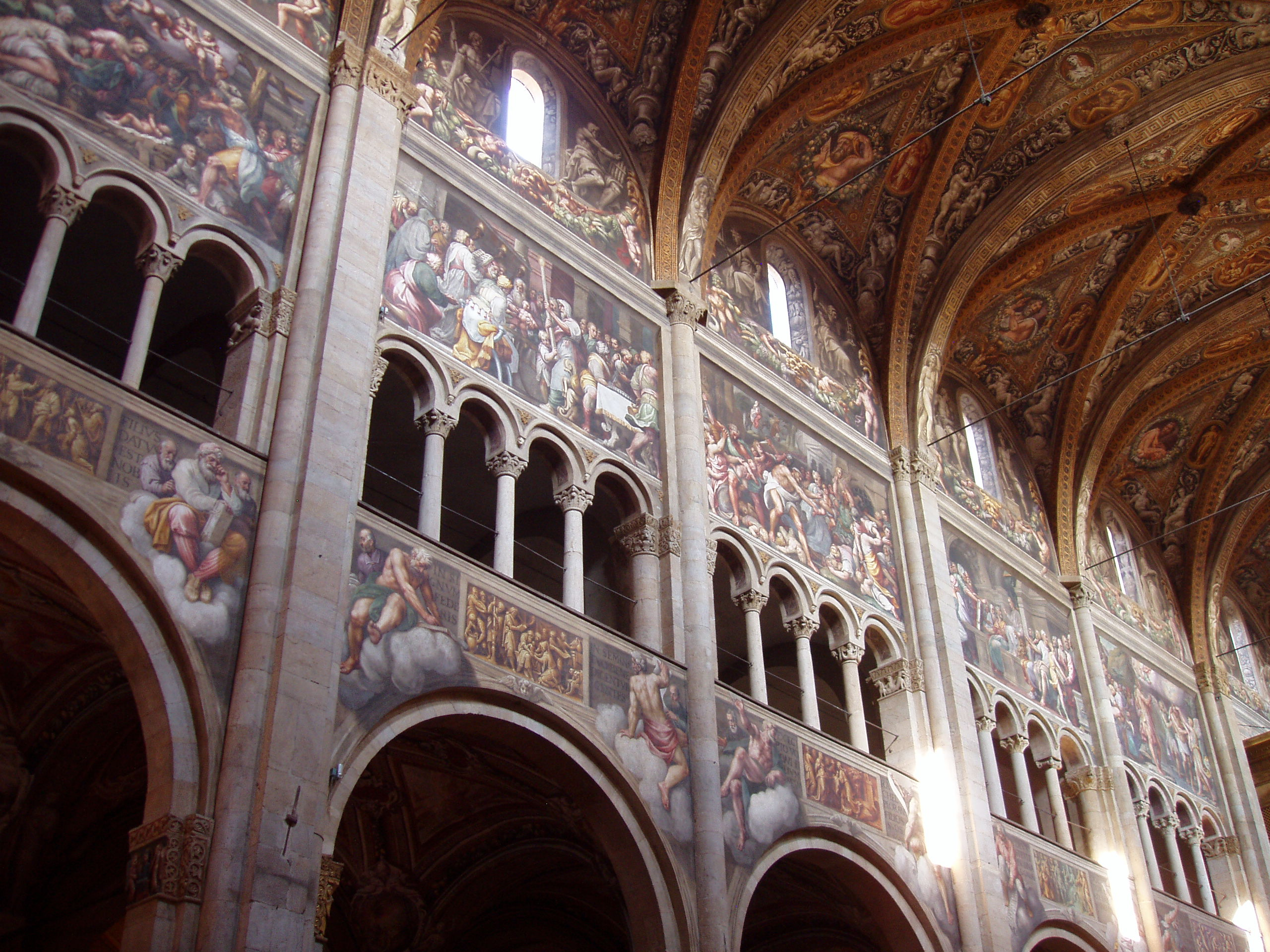 Parma, Italy - Duomo interior.